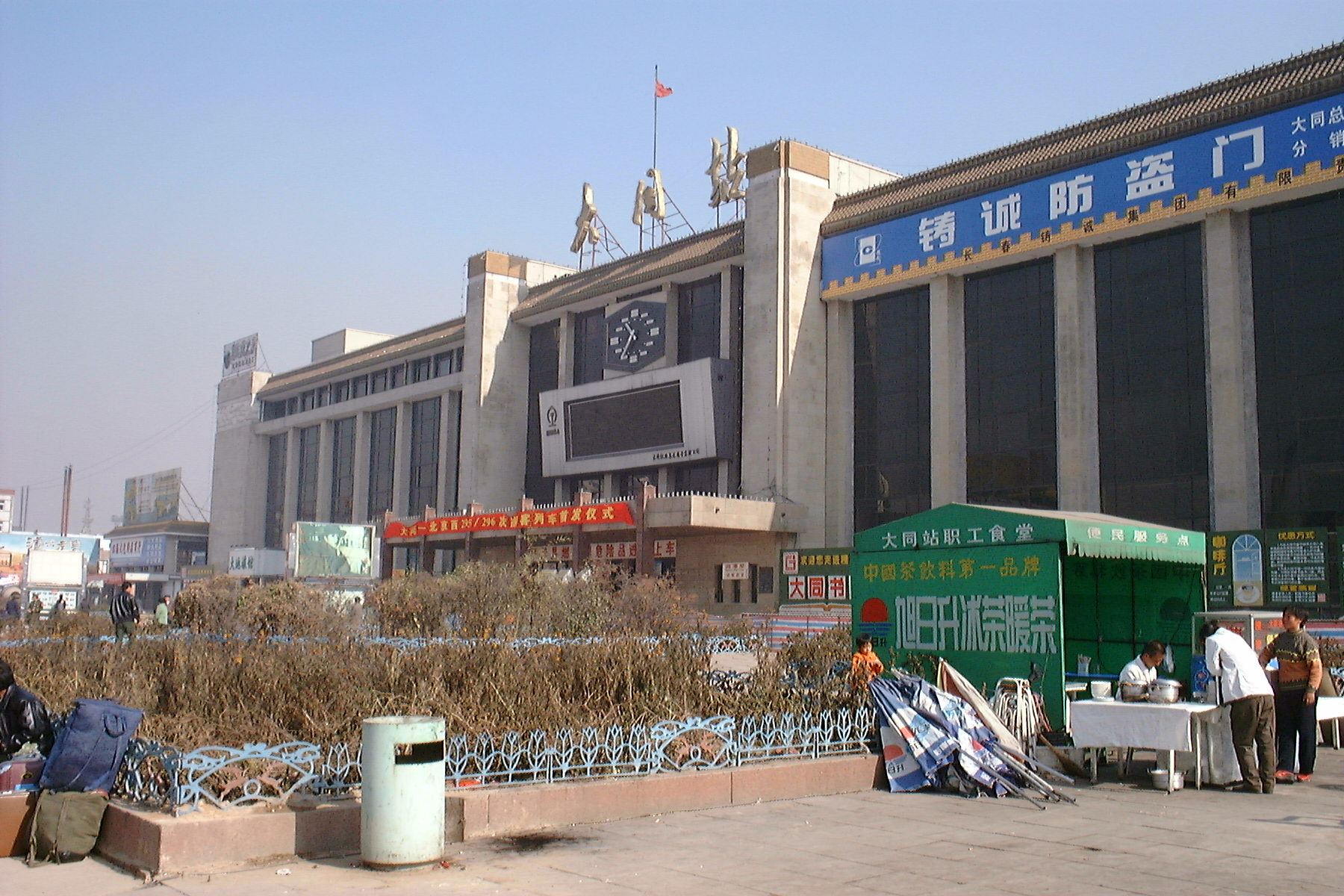 Datong Railway Station